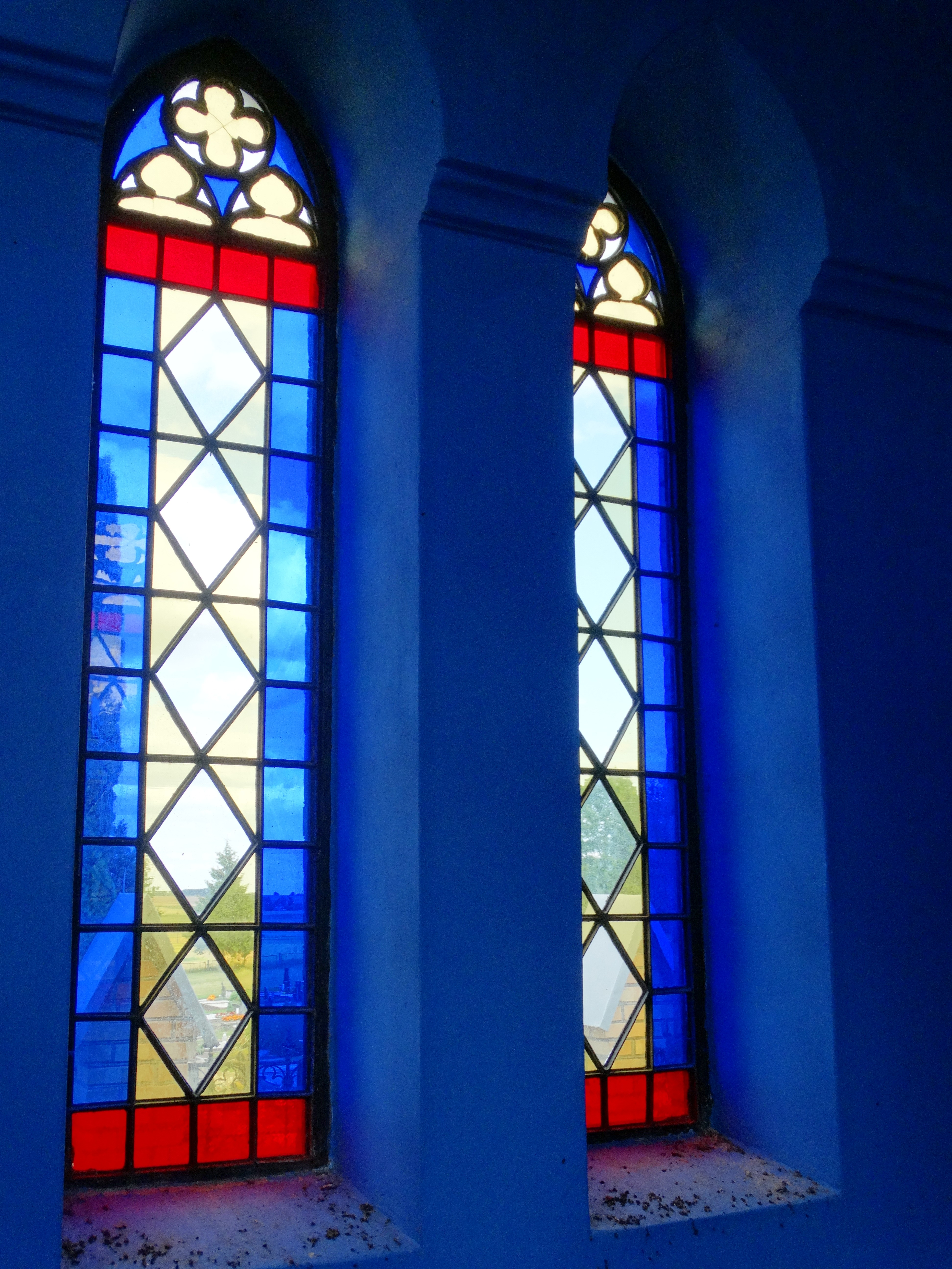 Cemetery chapel interior, Pilkalnis, Raseiniai district, Lithuania